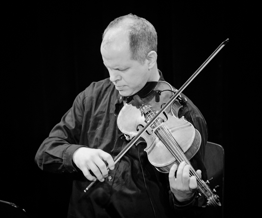 Bergmund Waal Skaslien with Daniel Herskedal at Victoria Teater. The concert took place on 07. December 2017 in Oslo. Lineup:Daniel Herskedal (tuba and trumpet)Eyolf Dale (piano)Helge Andreas Norbakken (percussion)Bergmund Waal Skaslien (viola)John Ehde (cello)